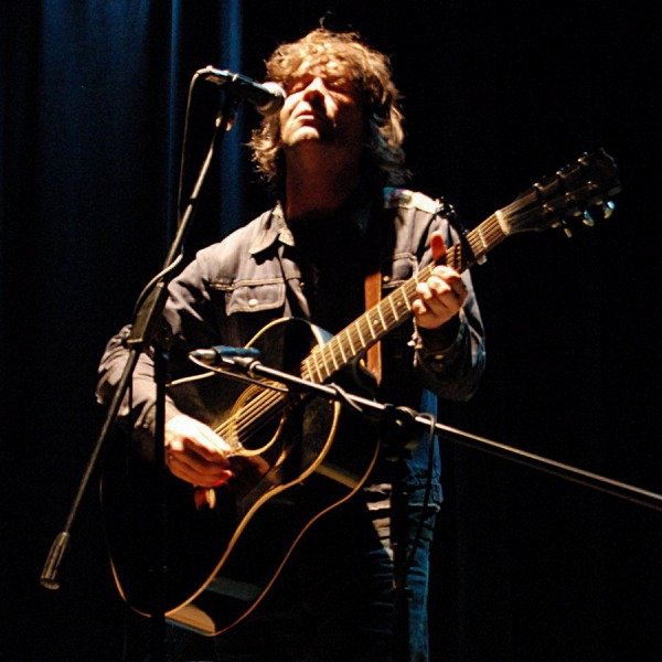 Tim Easton